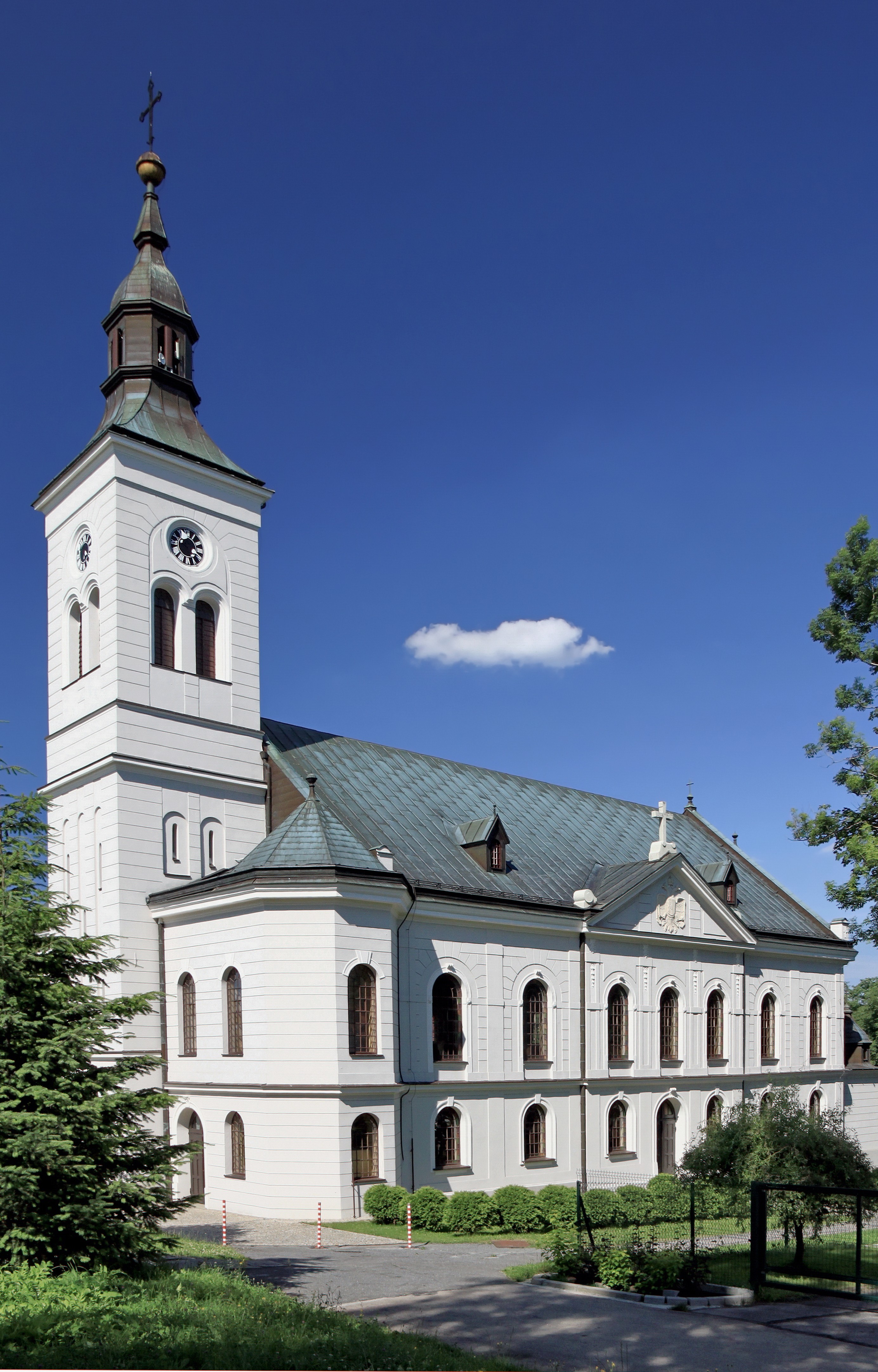 Jaworze, Lutheran church, build in 1782-1786, 1851-1852, 1912